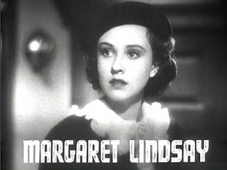 Cropped screenshot of Margaret Lindsay from the film Public Enemy's Wife